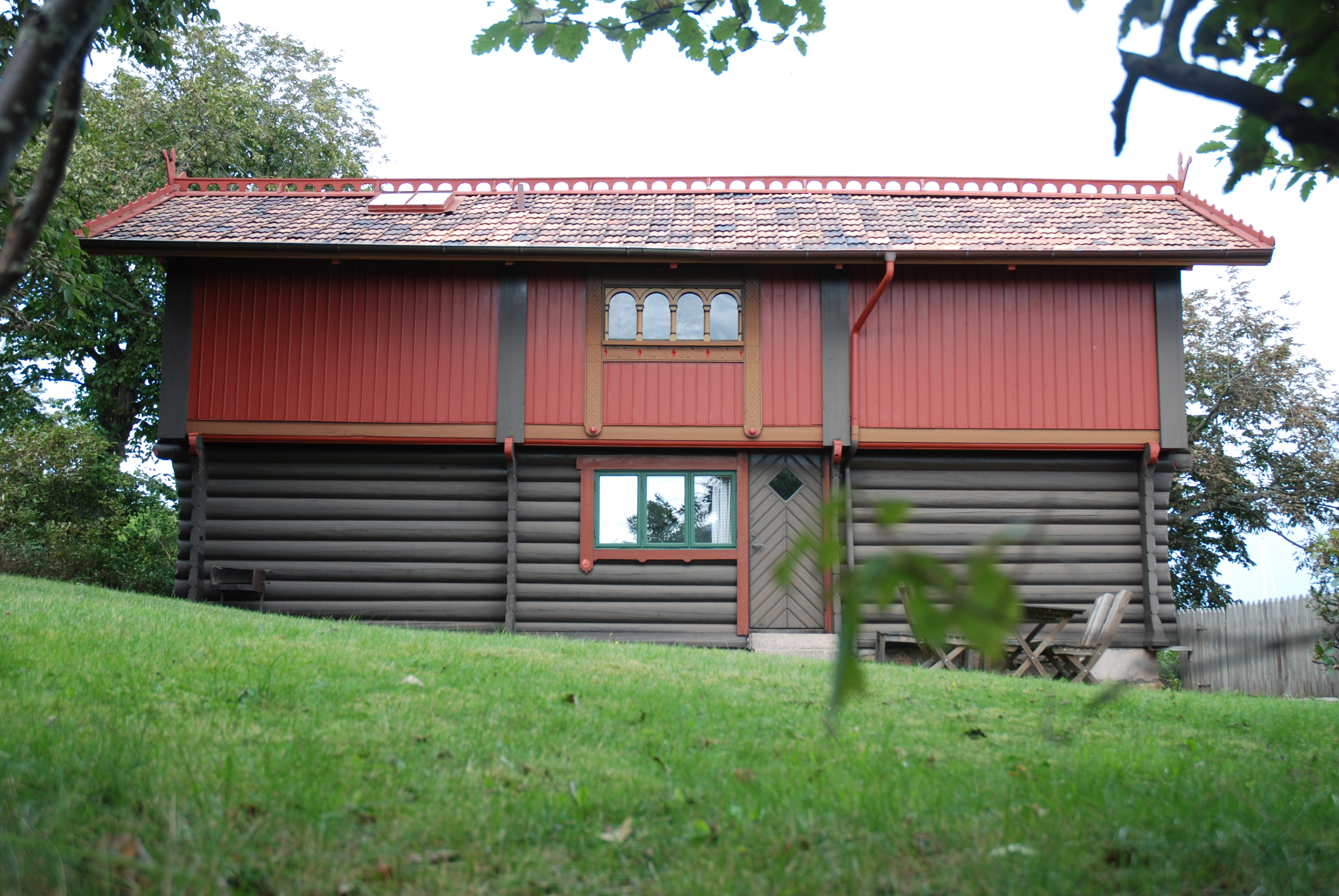 Curmanska villorna i Lysekil, Lillstugan